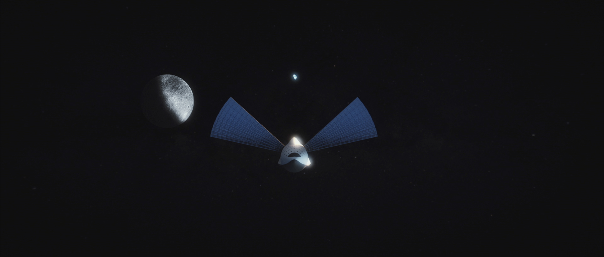 Interplanetary Spaceship, passing Moon.